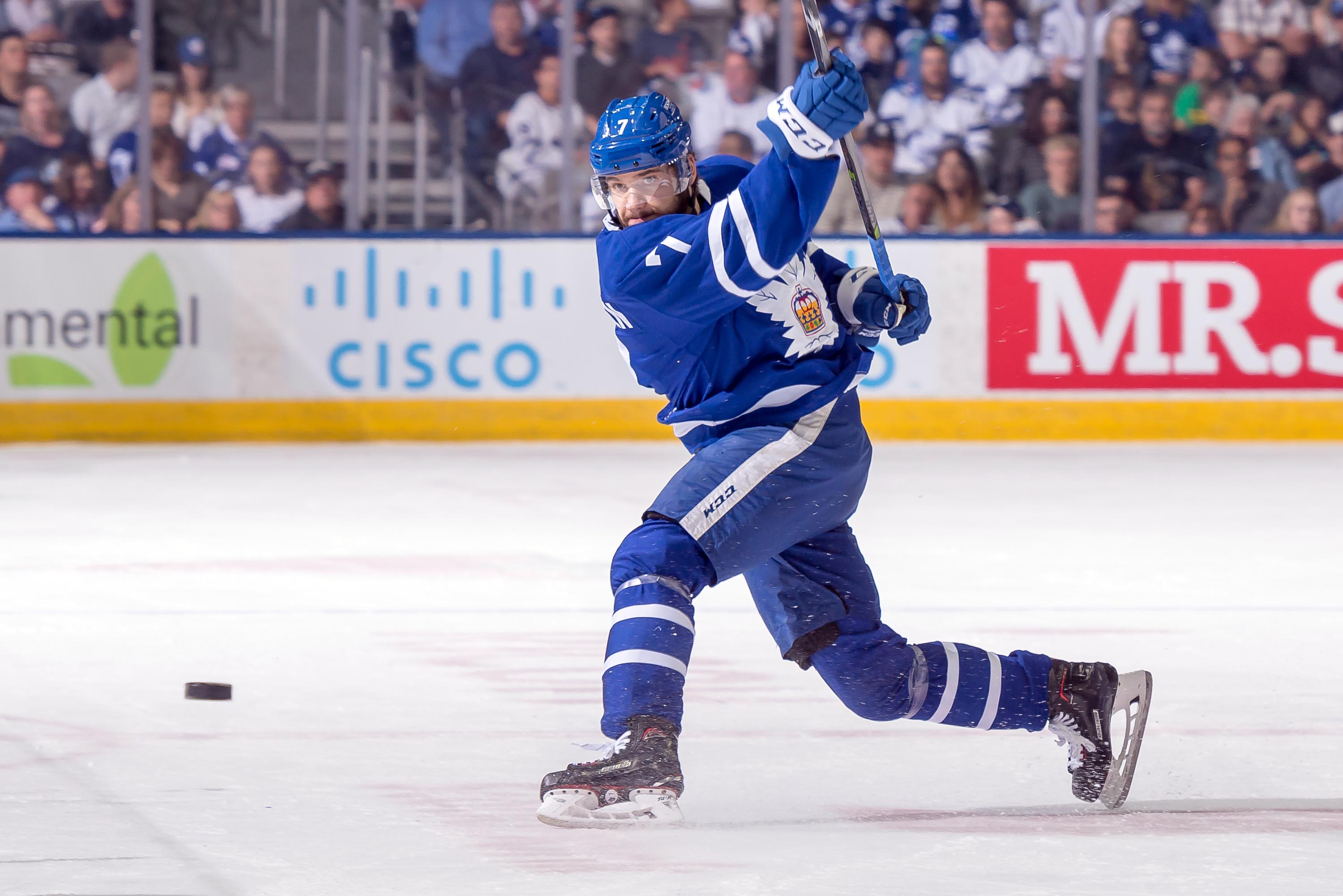 Photo: Christian Bonin